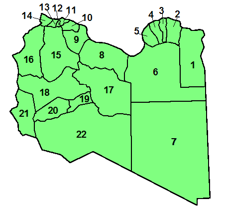 Map of the current twenty-two Shabiyah or Districts of Libya, established in 2007. See also: Subdivisions of Libya.